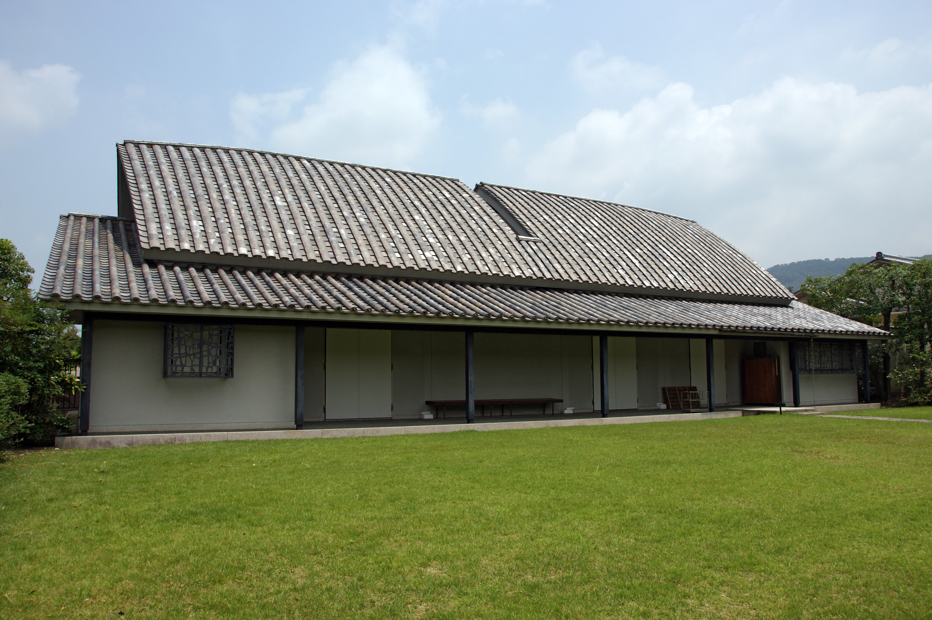 Neiraku Museum in Isuien, Nara, Nara prefecture, Japan